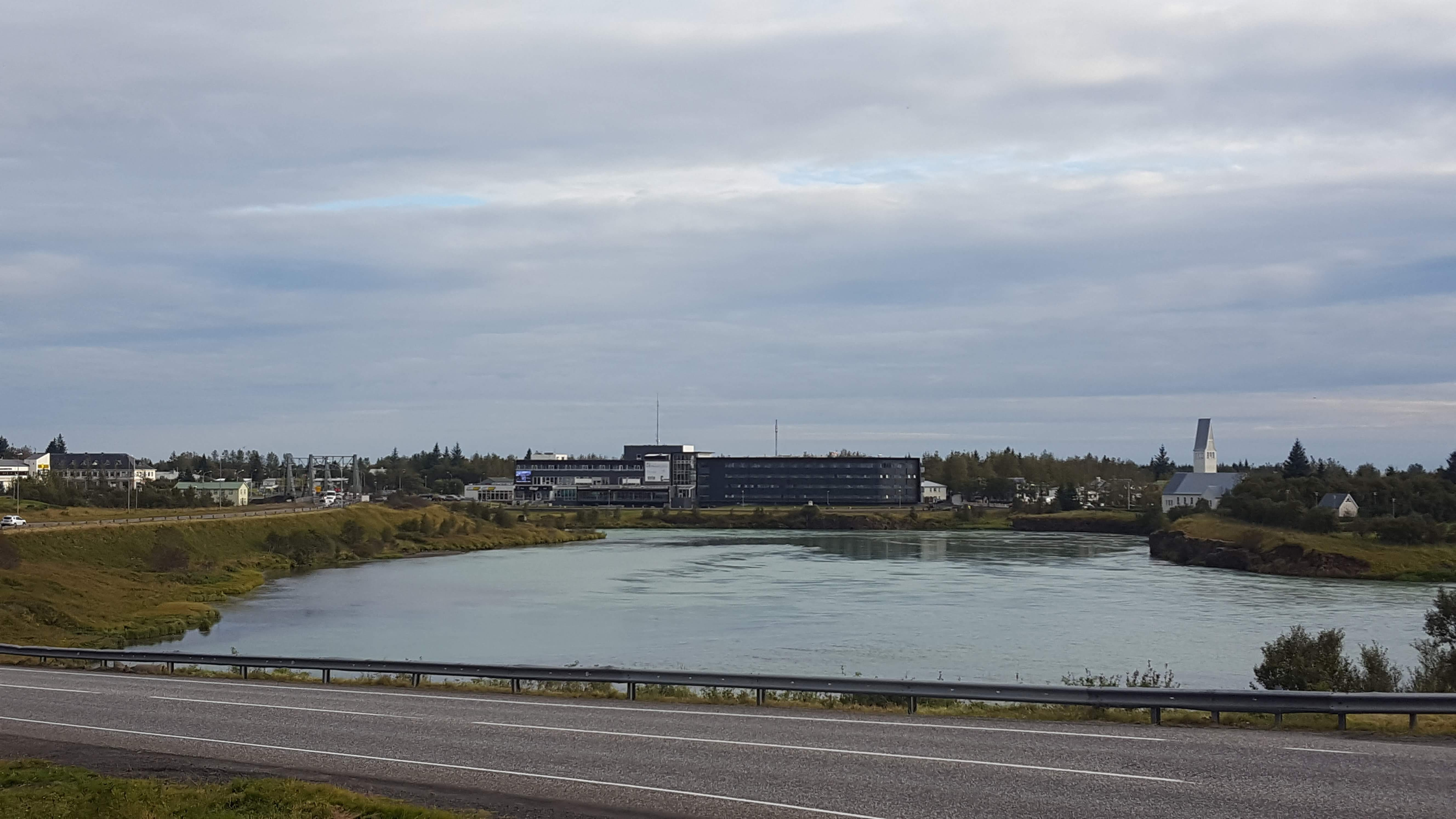 View over the town of Selfoss, looking south from the north bank of the Ölfusá river